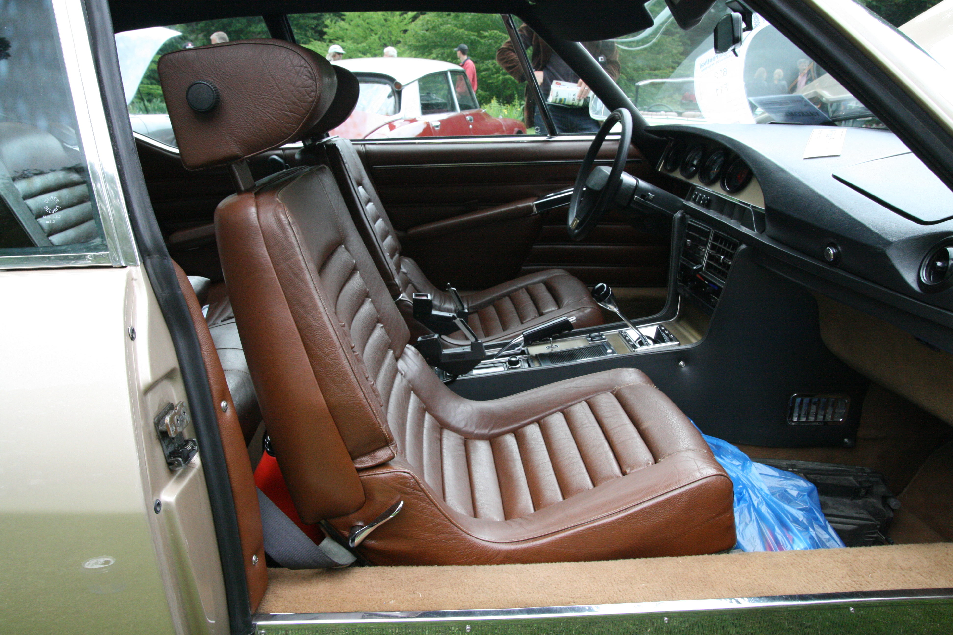 The interior of a Citroën SM, featuring brown leather upholstery and a black fascia. Vehicle photographed at the 2008 Nostalgia Festival auto show in Ronneby, Sweden.